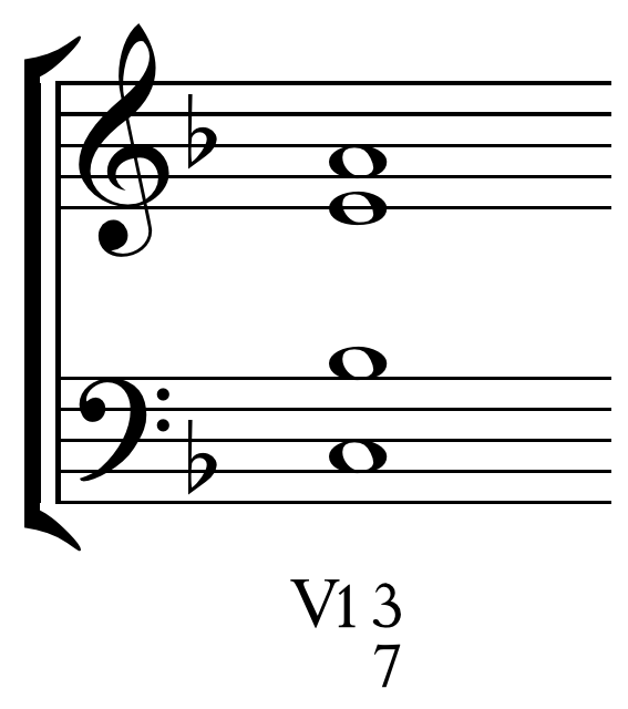 Dominant thirteenth: four-voice version. Created by Hyacinth (talk) 04:58, 3 July 2011 using Sibelius 5. See: File:Dominant thirteenth chord on C 4 voice 2.mid